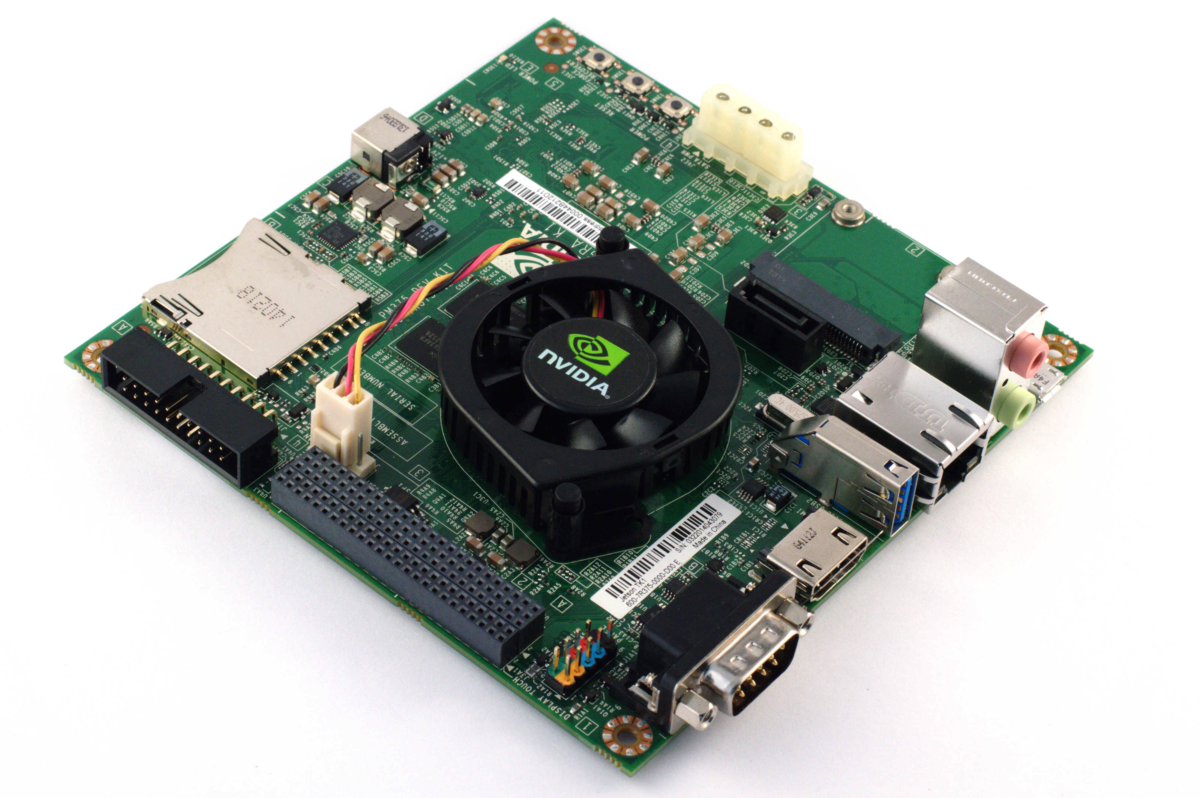 Launch model, received as PR sample in July 2014 direct from Nvidia UK.